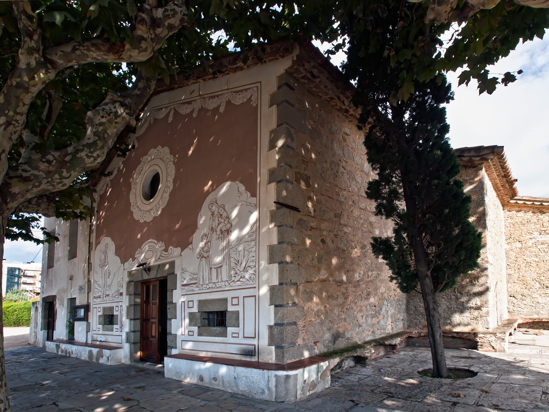 Sant Simo church of Mataró (Catalonia, Spain)